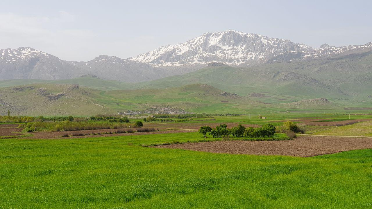 کوه بلوچ